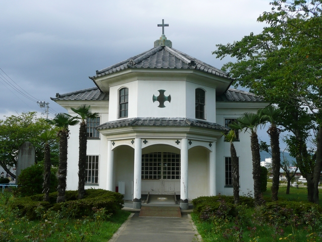 Orthodox Church in Ishinomaki, Miyagi, dedicated to St. John the Apostle. It was used as a church belonging to Orthodox Church in Japan, but now it is a cultural heritage of Ishinomaki after repairing Miyagi earthquake damage in 1978. The heritage: Saint John the Apostle Orthodox Church in Ishinomaki, is the oldest wooden church building (built in 1880) among existing wooden churches in Japan. Today, Ishinomaki Orthodox Church uses the other new church building (whose name is same; "Saint John the Apostle Church") after the earthquake.